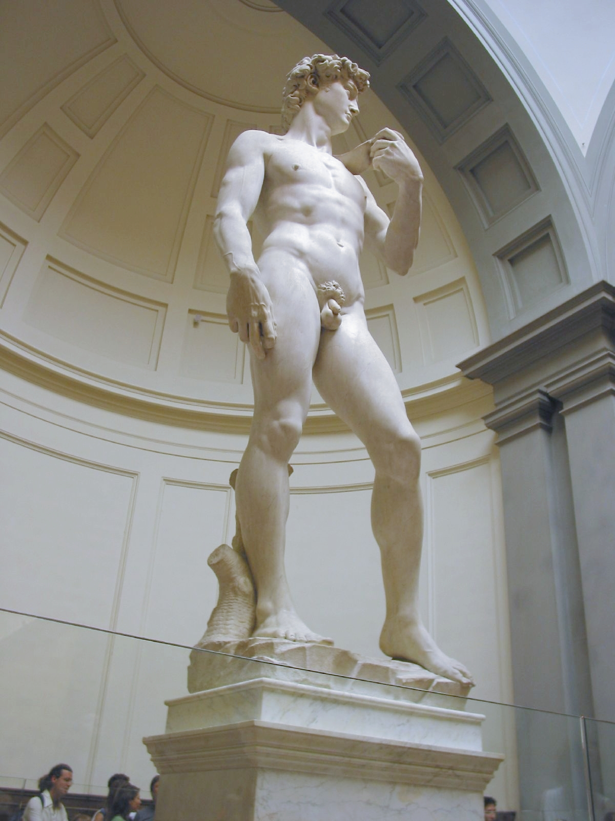 front